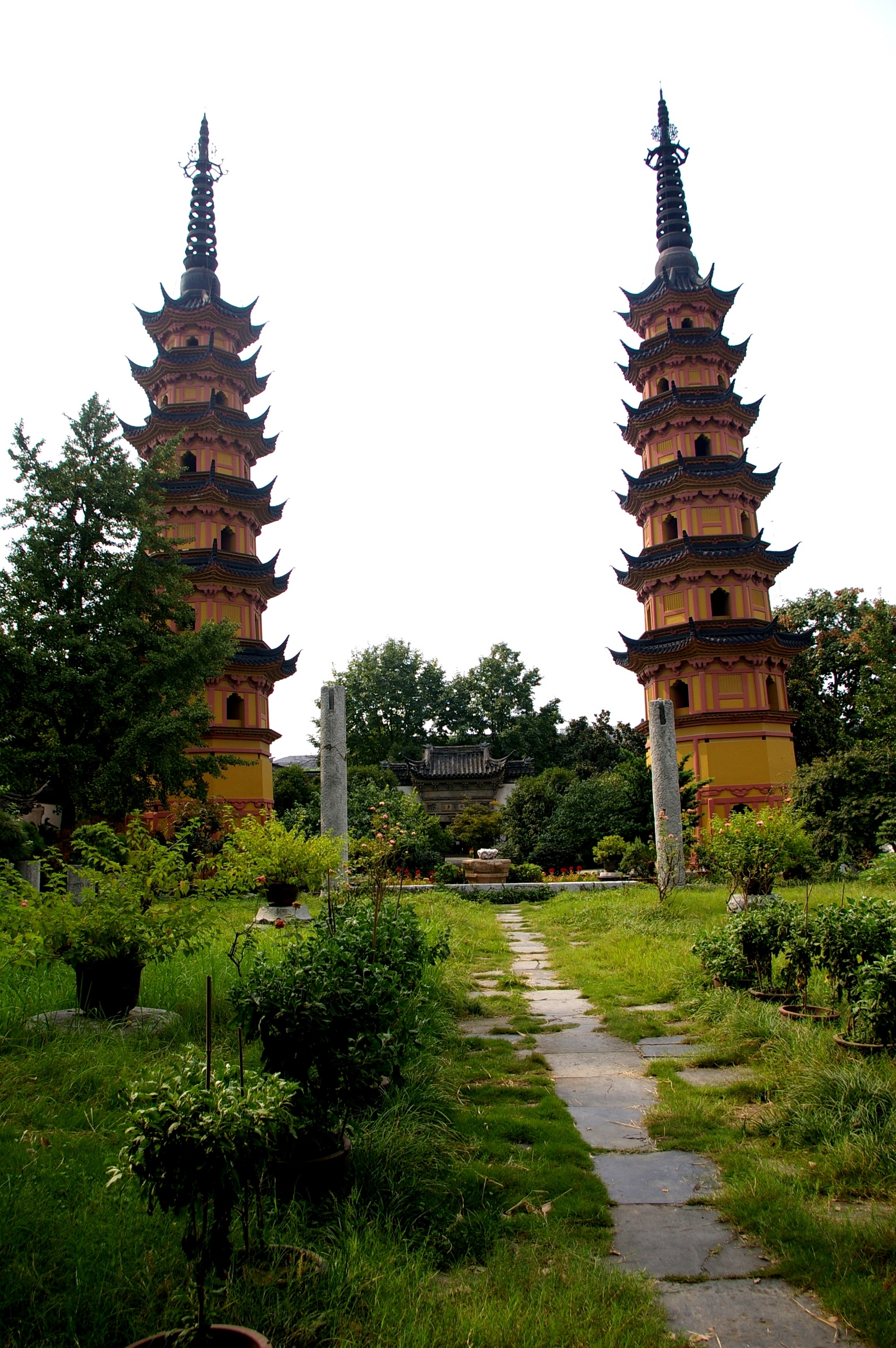 The Twin Pagodas in Suzhou